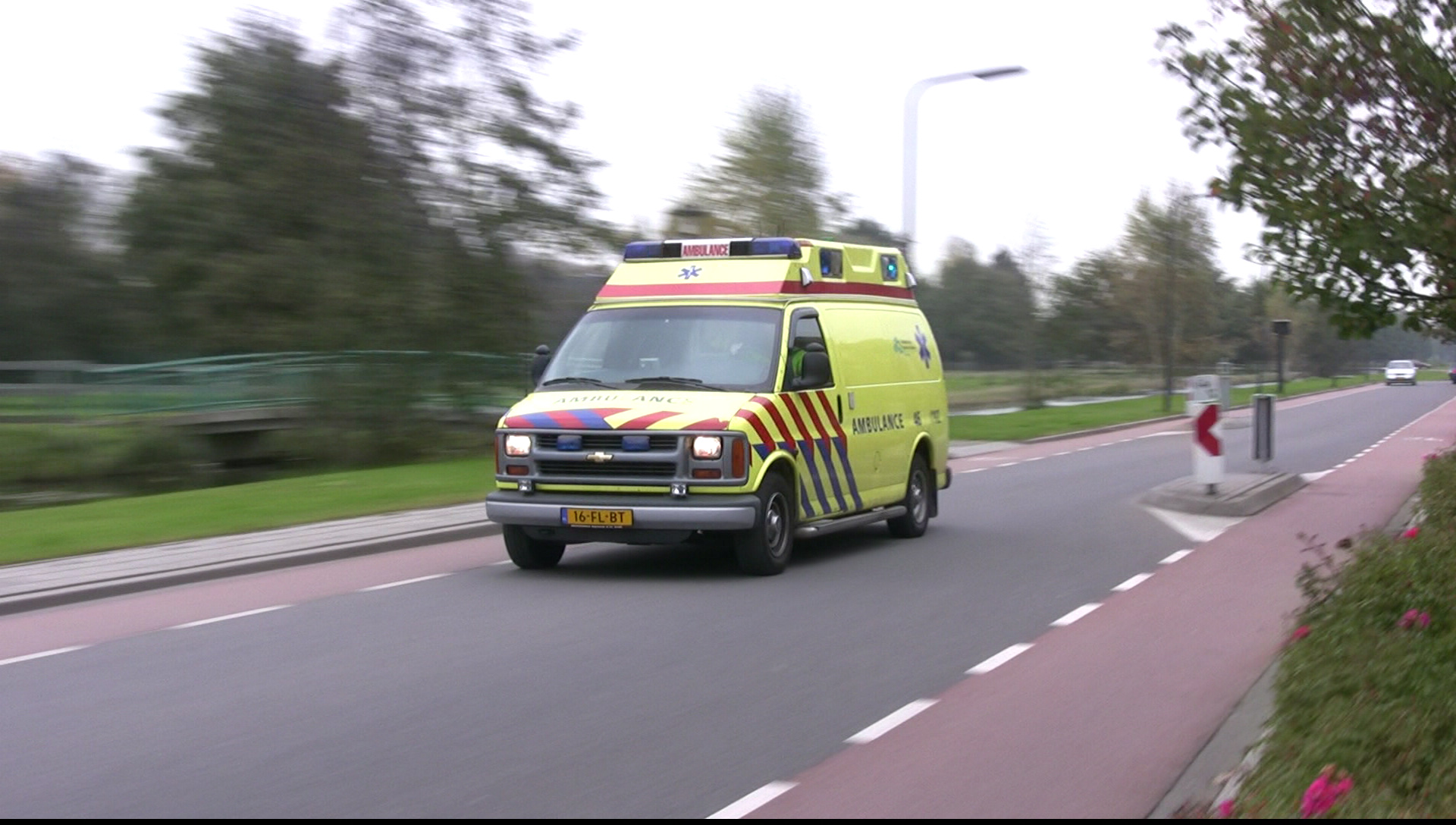 Dutch ambulance driving by. Taken with a Canon HV-20 videocamera. Snapshot was taken with VLC Mediaplayer.